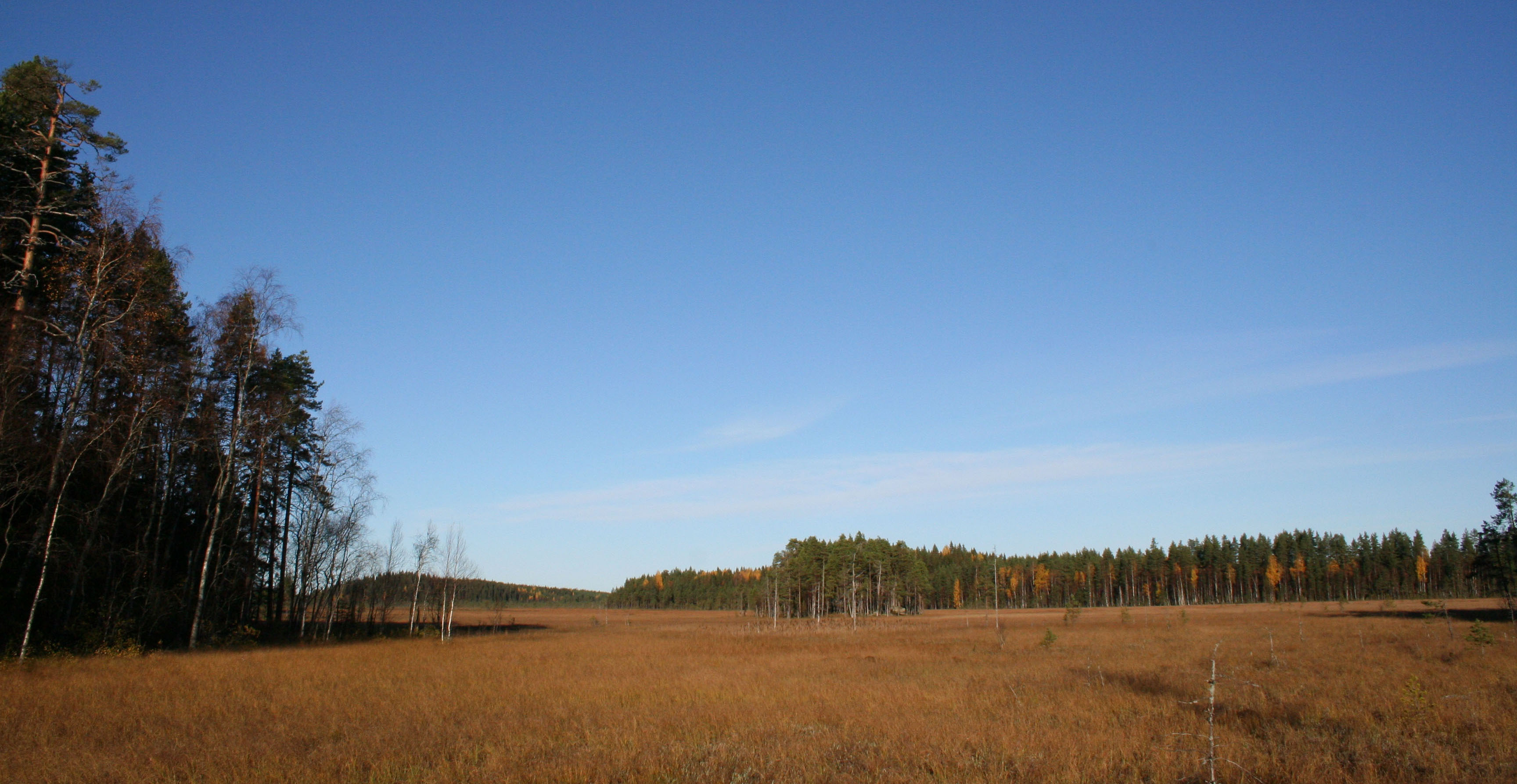 Siikaneva bog in Ruovesi, Finland